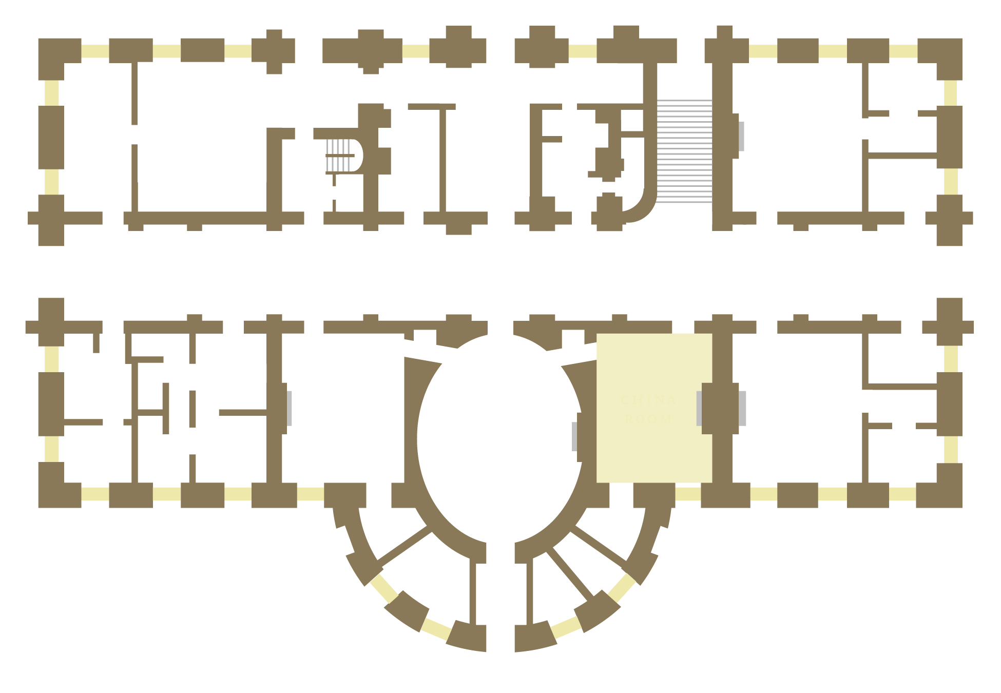 White House Ground Floor showing location of the China Room. 27.02.07, Jim Hood.